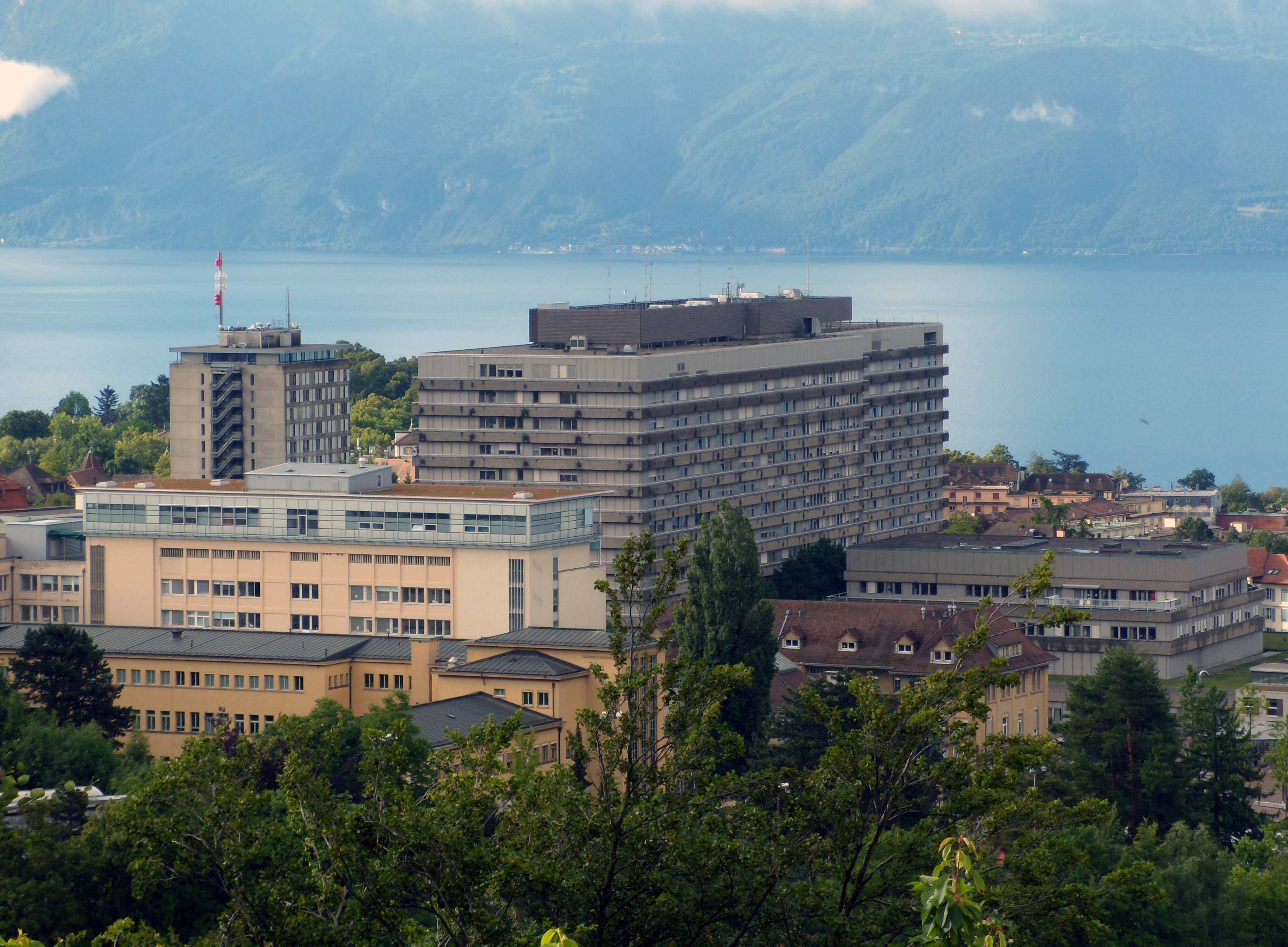 The University Hospital of Canton de Vaud (Lausanne, Switzerland) seen from the Signal de Sauvabelin